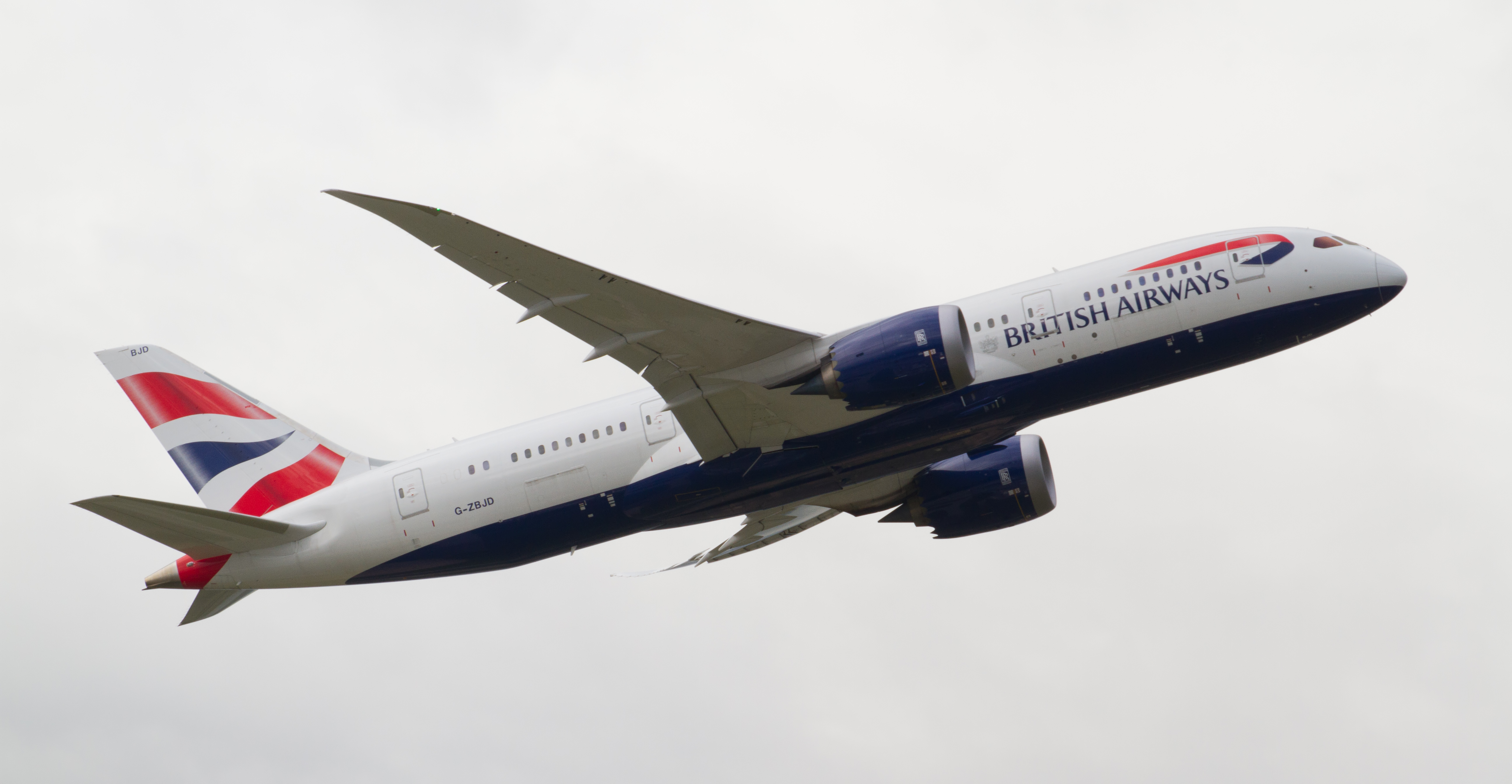 British Airways Boeing 787-8 Dreamliner G-ZBJD 2